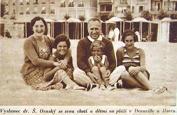 Czechoslovak Stefan Osusky with family